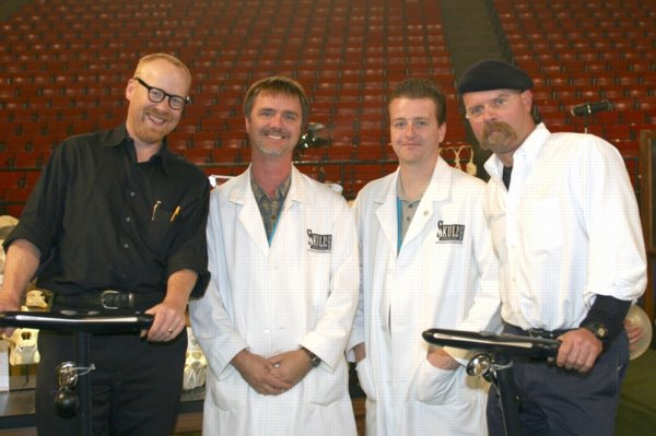 Skulls Unlimited Owner, Jay Villemarette and Director of Education, Joey Williams with the Mythbusters Adam Savage and Jamie Hyneman at the Discovery Channel's Young Scientists Challenge 2004.